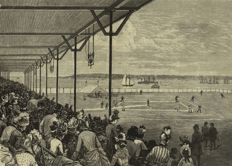 "[New grounds of the Metropolitan Baseball Club on Staten Island.] ([1882?])"